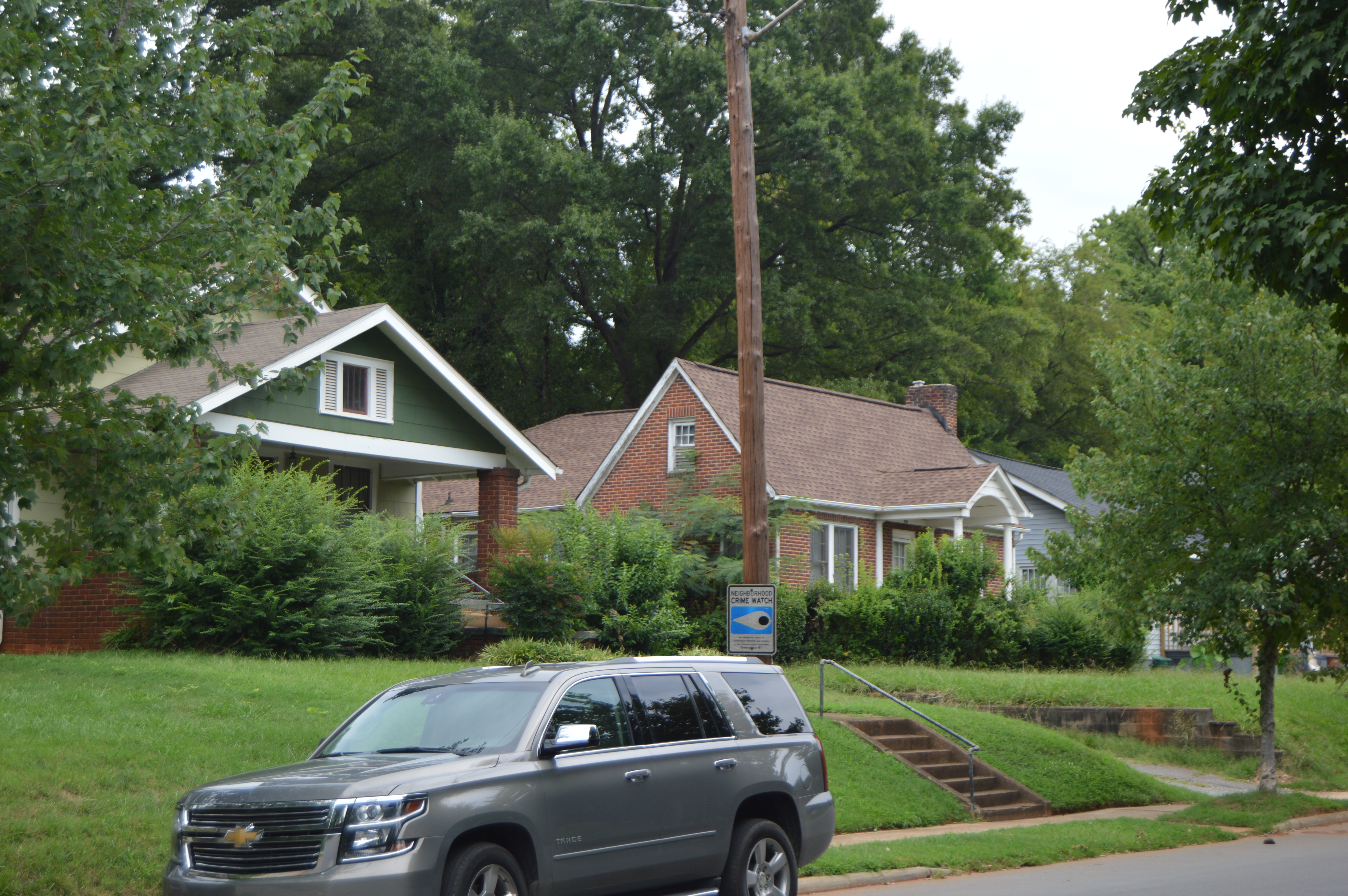 Houses on the western side of Summit Avenue north of Morehead Street in Charlotte, North Carolina, United States. This block is part of the Wesley Heights Historic District, a historic district that is listed on the National Register of Historic Places.